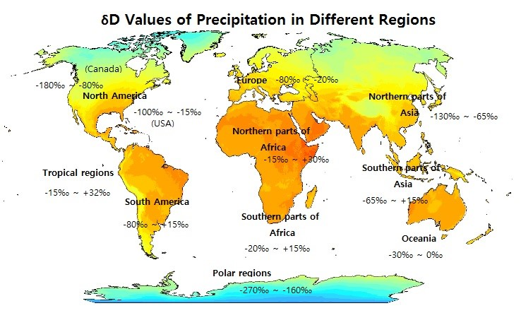 Modified by inserting the data on the map from